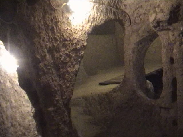 Kaymaklı Underground City - Cappadocia, Turkey